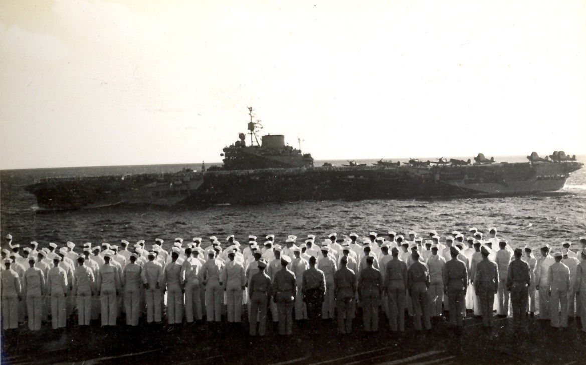 The British Royal Navy aircraft carrier HMS Illustrious (87) steaming past the U.S. carrier USS Saratoga (CV-3) in the Indian Ocean, 18 May 1944. Note the crews of both ships assembled on deck to pay farewell.